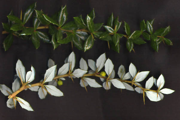 Berberis verruculosa leaves (upper side of shoot above, lower side below)